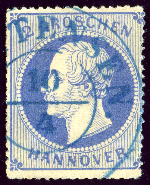 Stamp of the Kingdom of Hanover, 2 Groschen perforated issue 1864, George V head, blue cancelled at PATTENSEN, Lower Saxony.